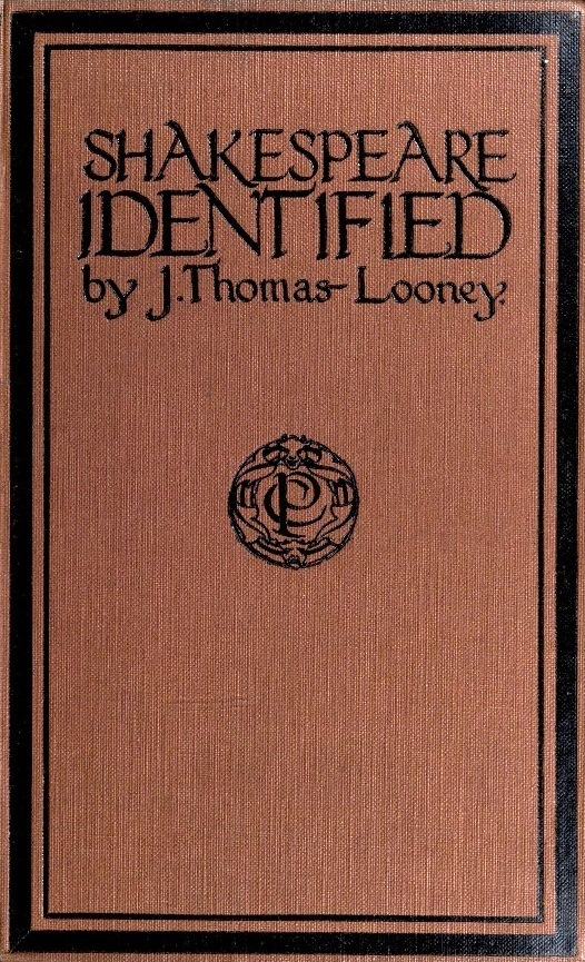 Cover of Shakespeare Identified (1920)